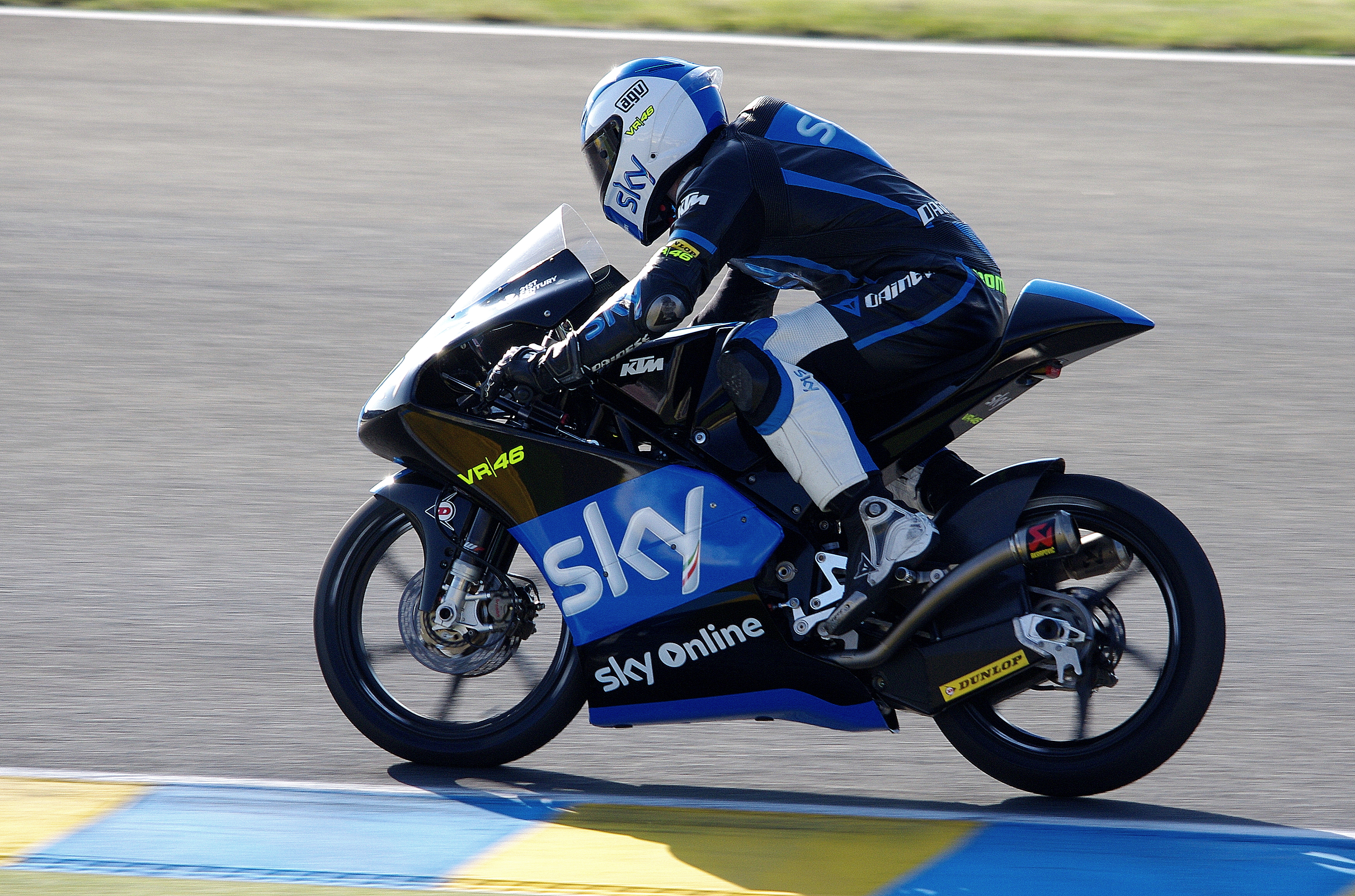 Romano FENATI - SKY Racing Team VR46 - Moto3 2014 - Le Mans